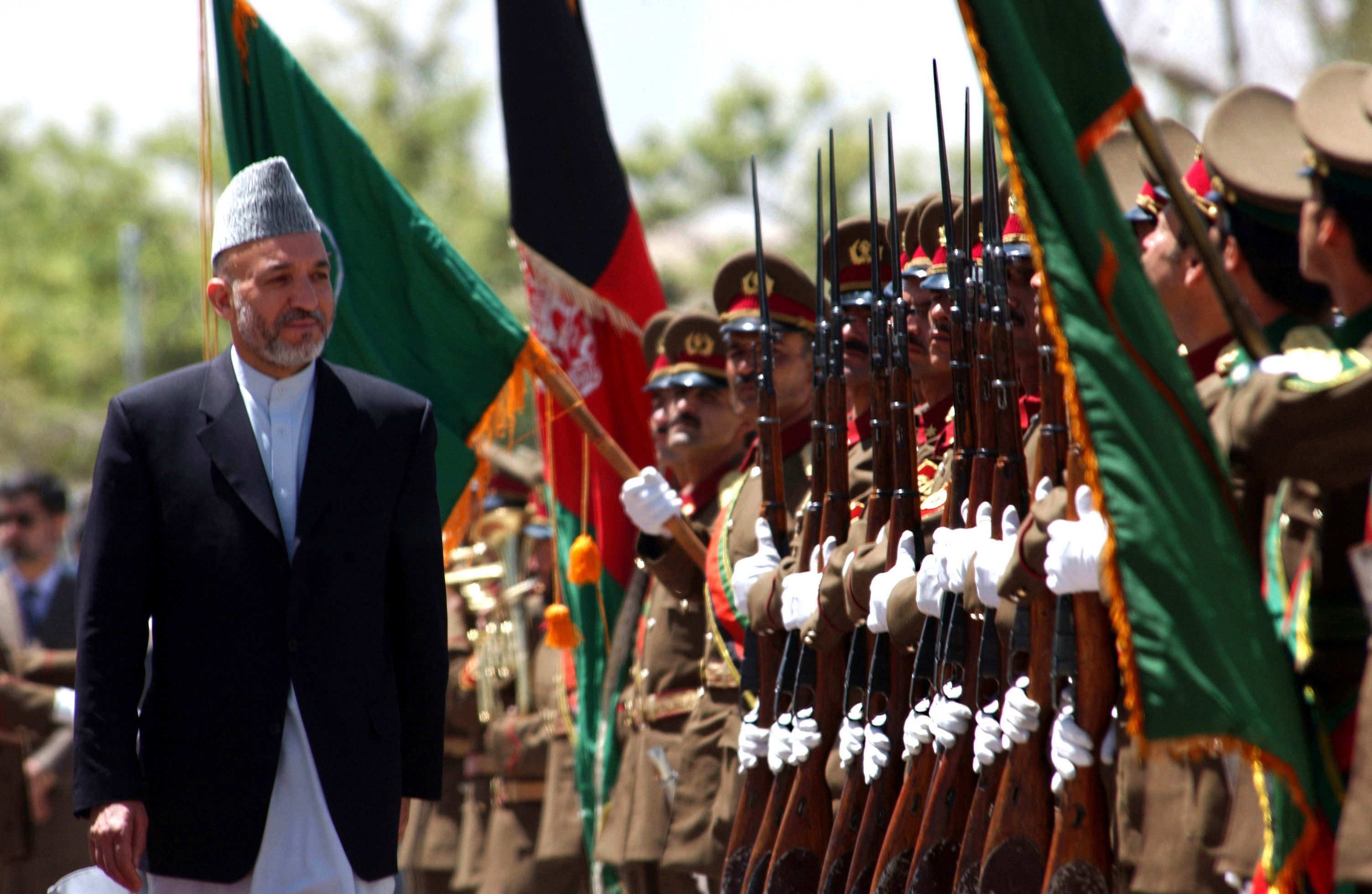 Hamid Karzai reviews troops of the first graduating class equipped with Russian Mosin–Nagant rifles, for the 1st Battalion, Afghan National Army (ANA), during a ceremony held at the Kabul Military Training Center in Kabul, Afghanistan.